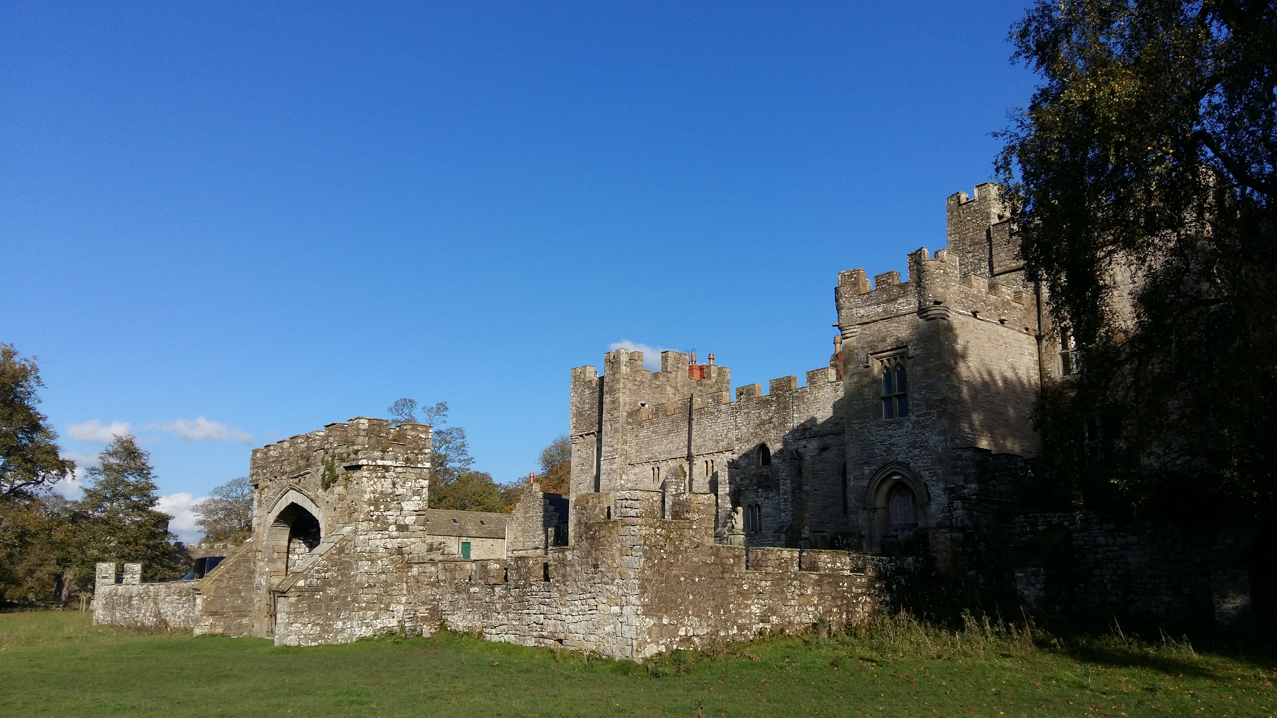 Featherstone Castle, a Grade I listed building, is a large Gothic style country mansion situated on the bank of the River South Tyne about 3 miles (5 km) southwest of the town of Haltwhistle in Northumberland, England (grid reference NY674610).